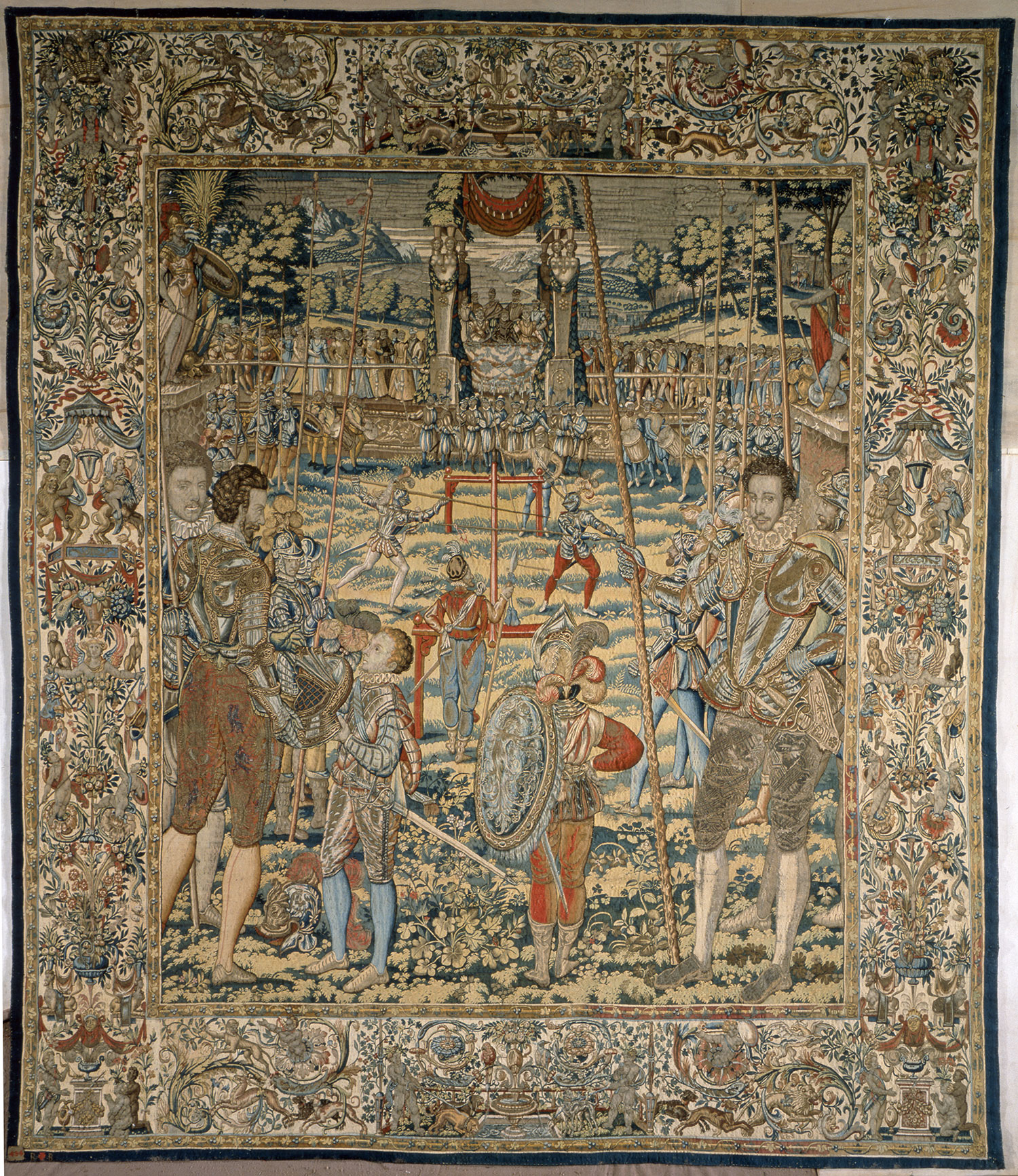 Barriers, from the Valois Tapestries